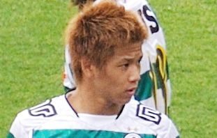 Hiroki Kawano from Tokyo Verdy